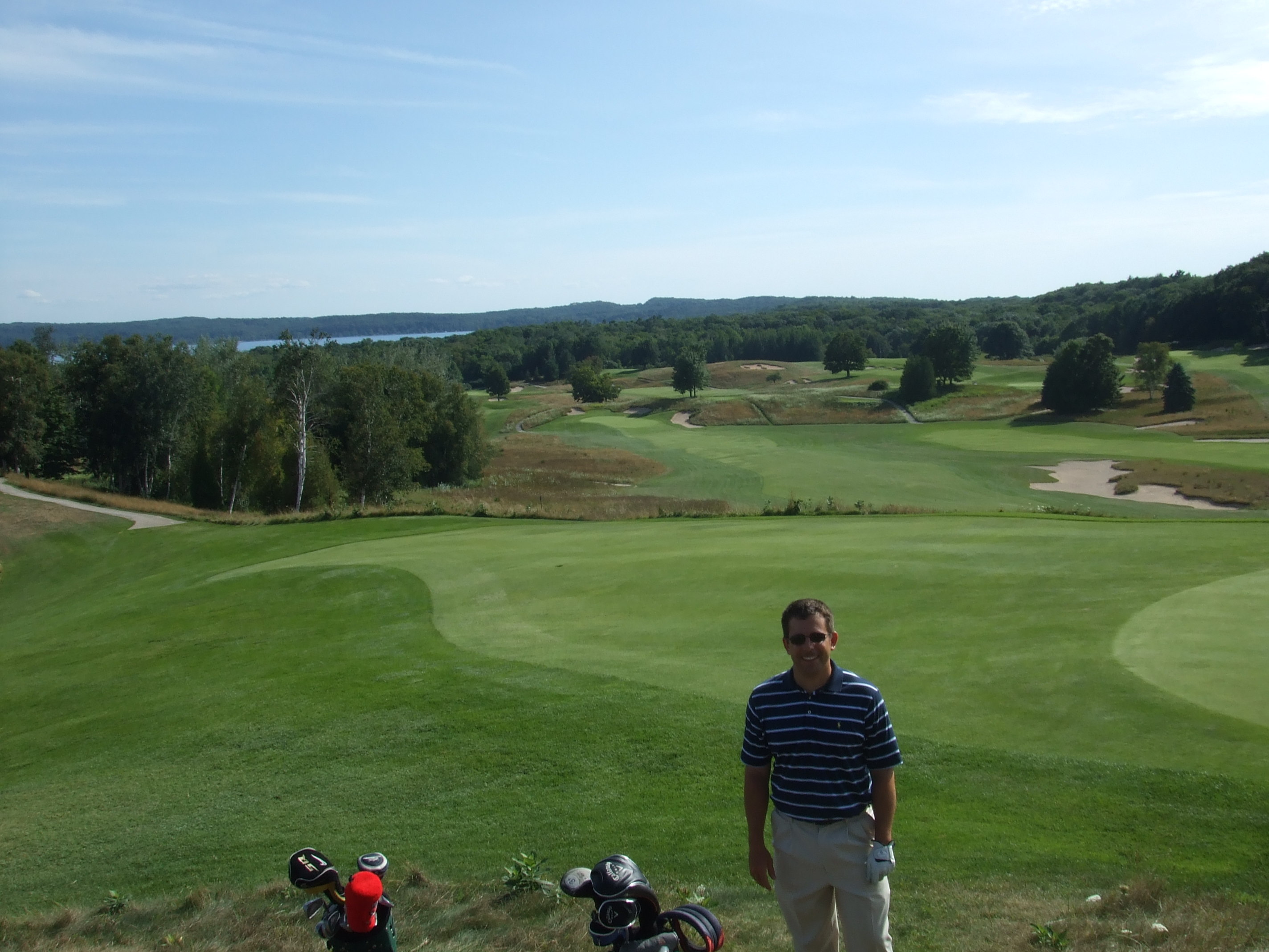 picture of Crystal Downs from the 9th green